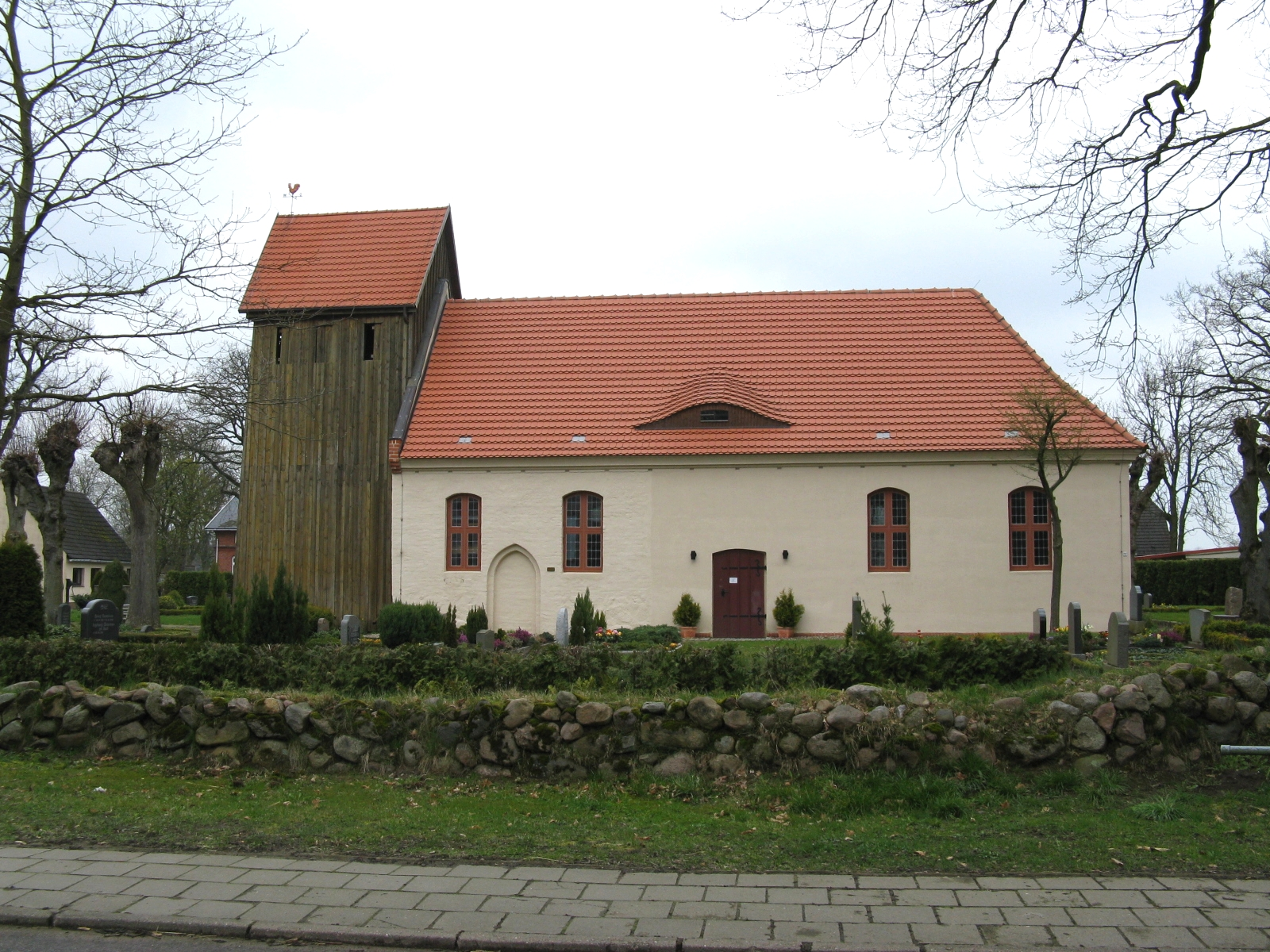 Church in Domsühl, Mecklenburg-Vorpommern, Germany